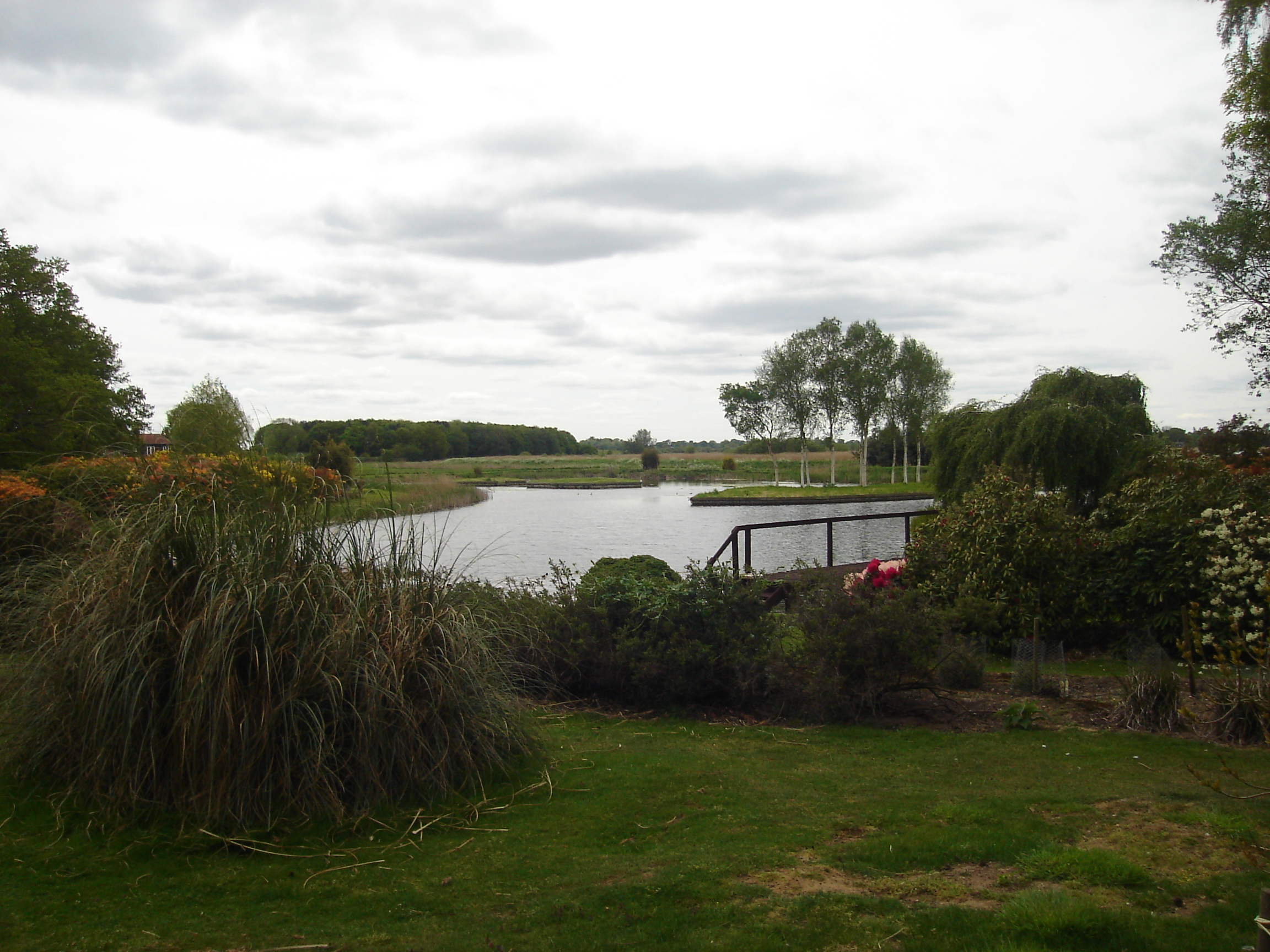 Boardman's Broad is located close to the River Ant at Ludham, Norfolk It was created in 1978.